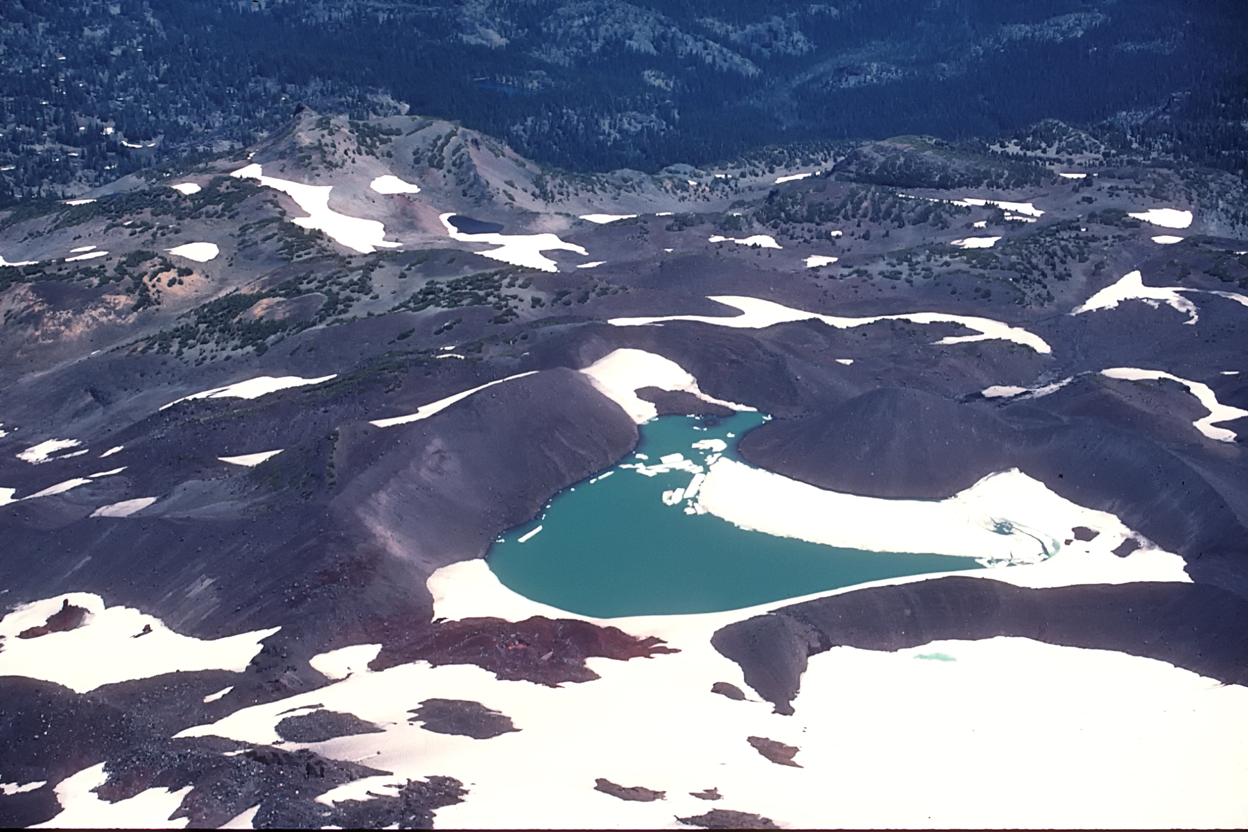 Carver Lake is a moraine-dammed lake on the side of the South Sister volcano in Oregon